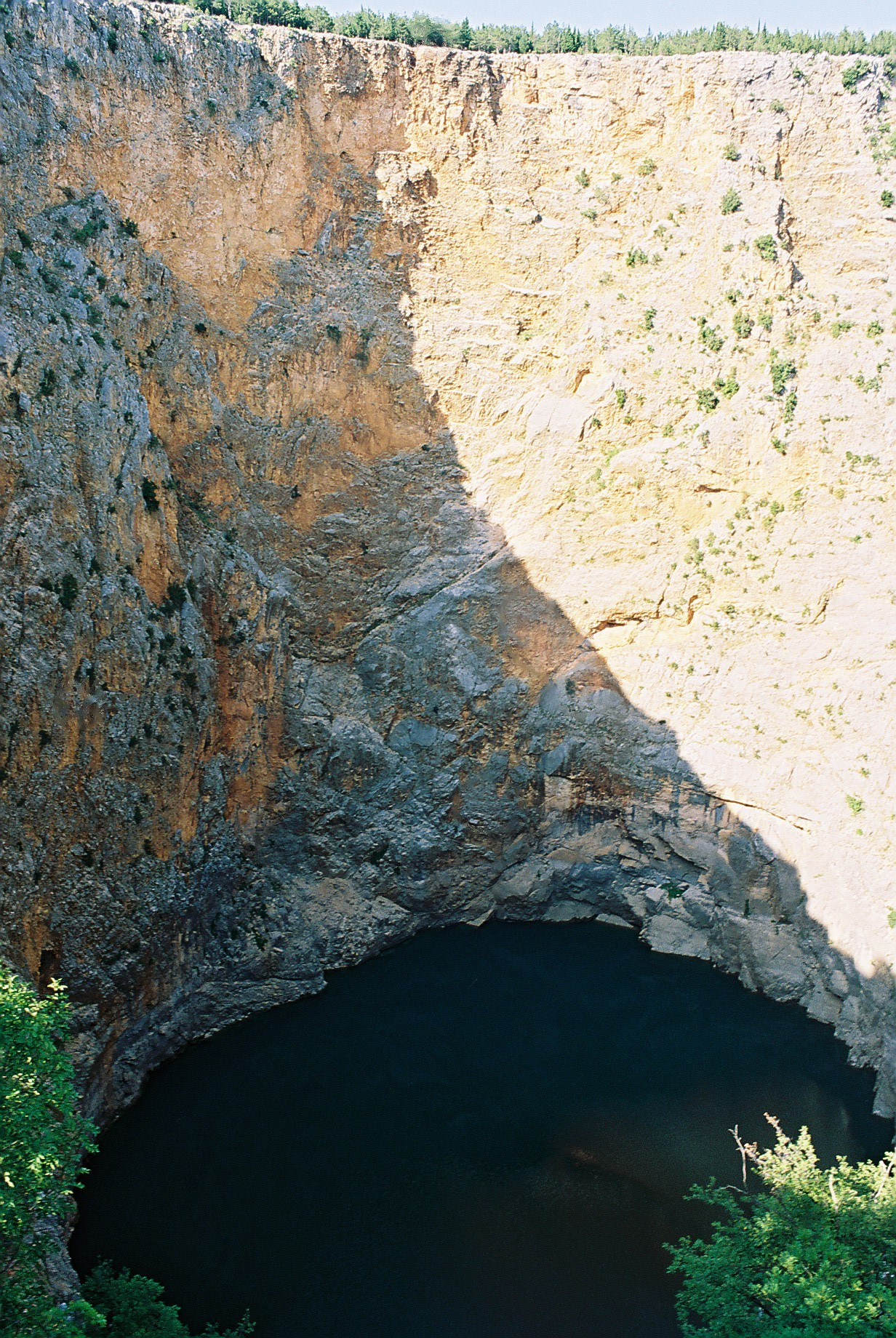 The Red Lake in Croatia, near the city of Imotski.